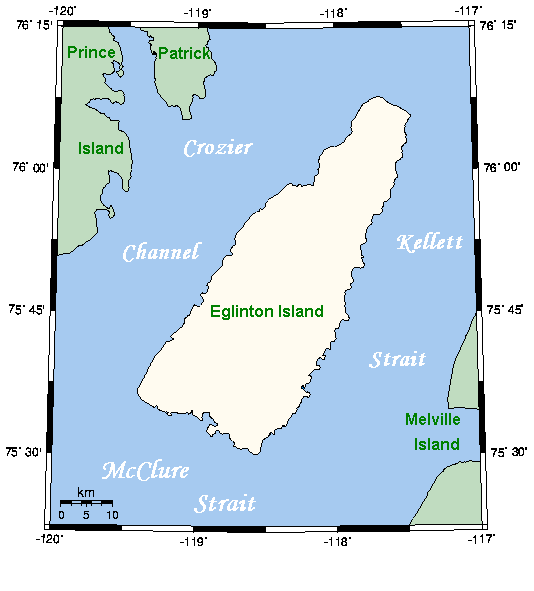 A closeup of Eglinton Island in the Nothwest Territories. This map's source is here, with the uploader's modifications, and the GMT homepage says that the tools are released under the GNU General Public License.